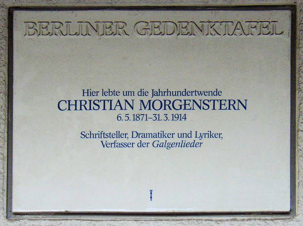 Berlin memorial plaque, Christian Morgenstern, Stuttgarter Platz 4, Berlin-Charlottenburg, Germany Koordinate:52°30′21″N 13°18′19″E / 52.50583°N 13.30528°E